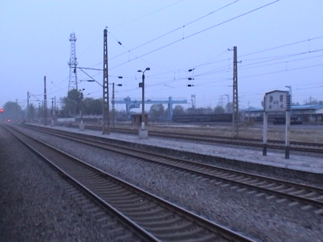 English Shahe railway station 40°07.4′ N, 116°15.6′ E 2006-04-16 10:30:21 UTC Traditional Chinese 沙河站 拍攝地點: 1456次普通普快列車, 北緯40度07.4分, 東經116度15.6分 拍攝時間: 北京時間2006年04月16日18時30分21秒 Simplified Chinese 沙河站 拍摄地点: 1456次普通普快列车, 北纬40度07.4分, 东经116度15.6分 拍摄时间: 北京时间2006年04月16日18时30分21秒